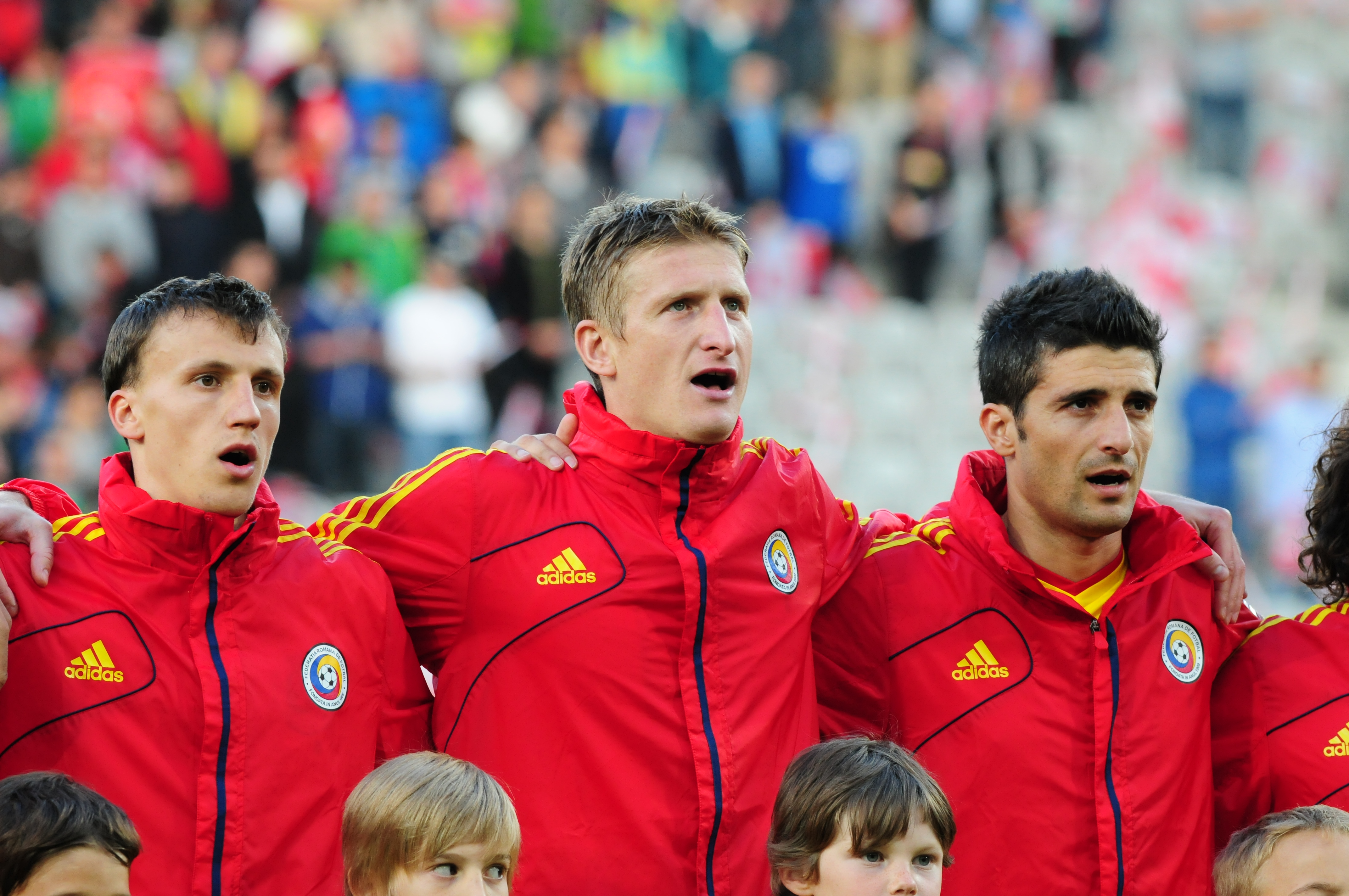 Exhibition game Austria vs. Romania at 5st. June 2012